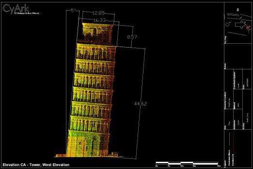 This elevation shows the interesting quandry facing the campanile. The 'Leaning Tower of Pisa' is the one of the most well known monuments in the world. The tower has been leaning since shortly after its initial construction in 1173 due to unstable substrate soils. The circular shape and great height (currently 55.86 m on the lowest side and 56.70 m on the highest) of the campanile were unusual for their time, and the crowning belfry (likely constructed during the 14th century) is stylistically distinct from the rest of the construction. This belfry incorporates a 14 centimeter correction for the inclined axis below. The siting of the campanile within the Piazza del Duomo diverges from the axial alignment of the cathedral and baptistery, and it has been suggested that its placement might have been due to astrological factors.